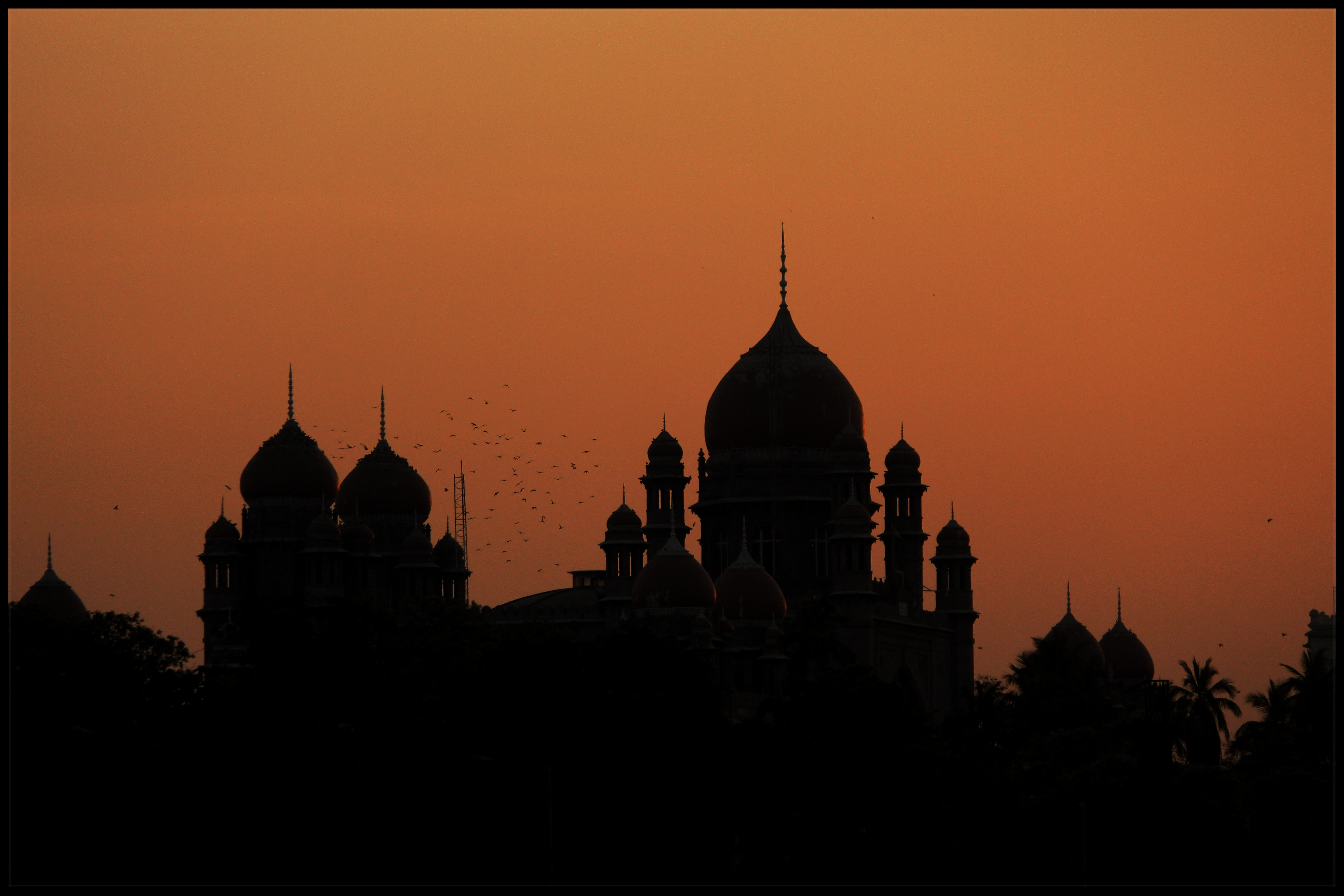 This is the silhouette of telangana high Court which was built by Mir osman Ali khan